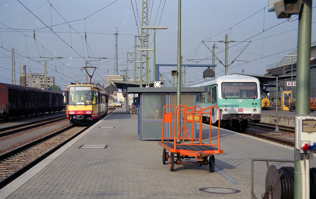 Tram and railcar at Karlsruhe Hbf